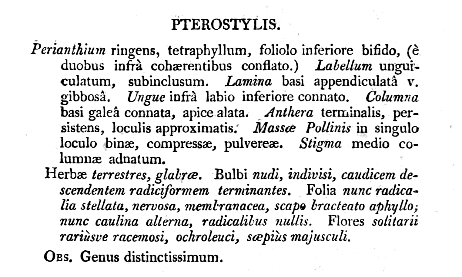 First description of Pterostylis